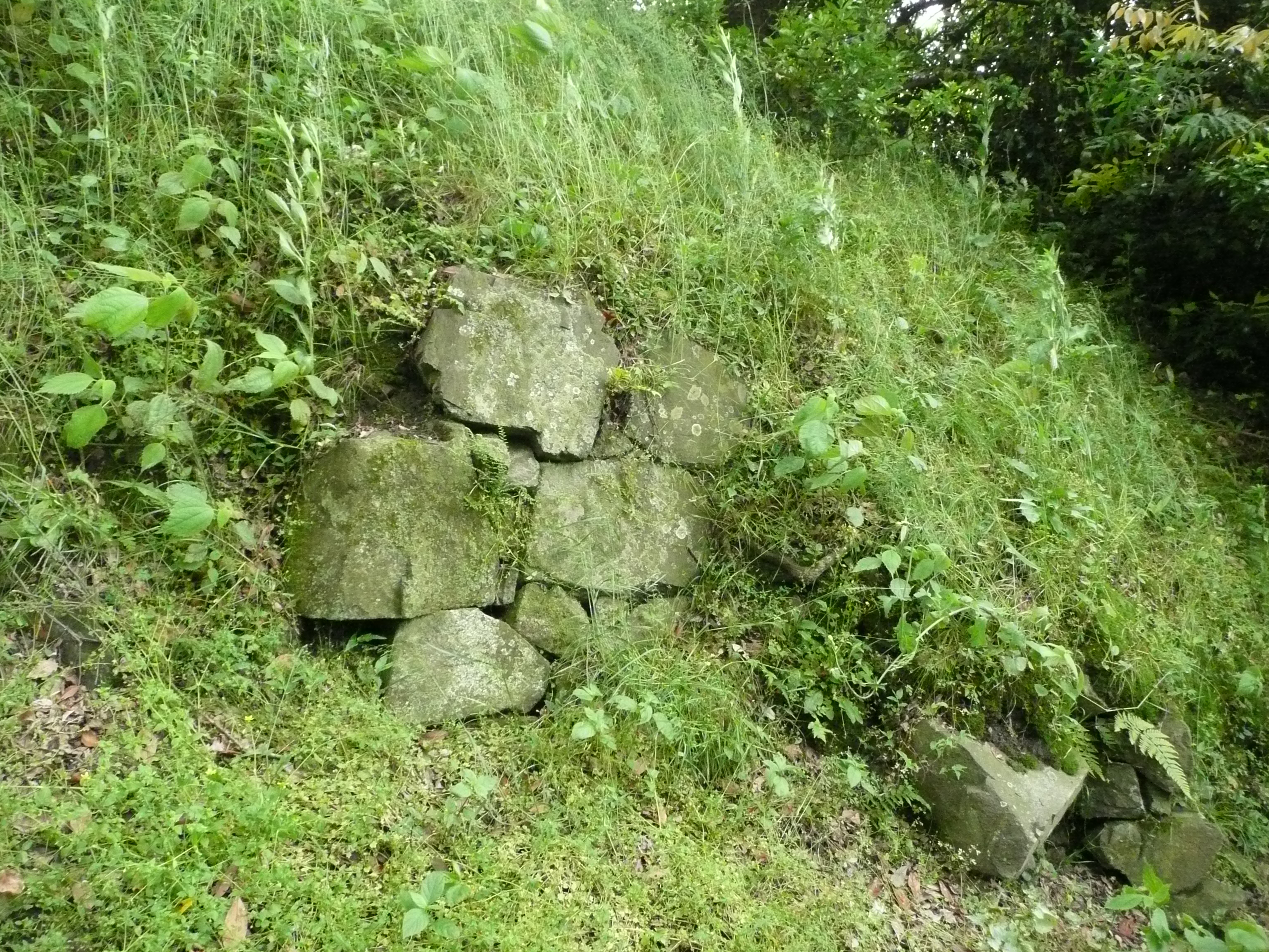 門司城の石垣の一部